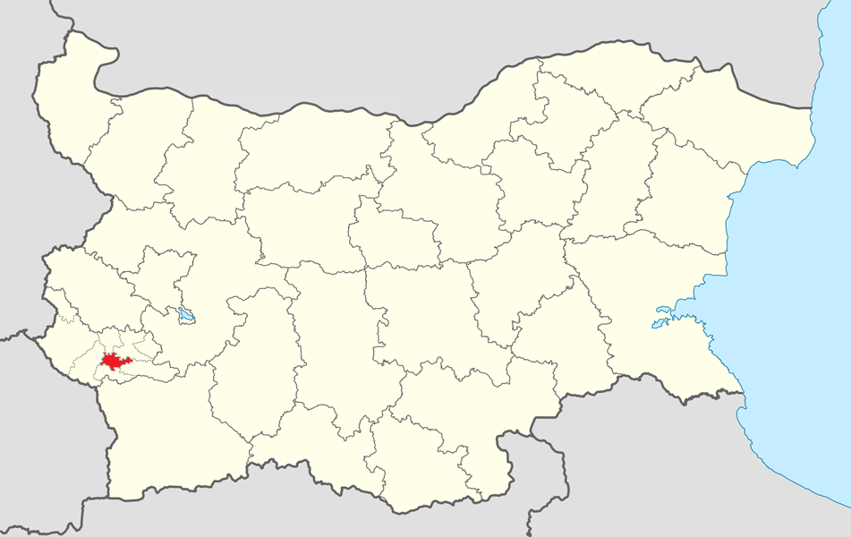 Location map of Boboshevo Municipality within Bulgaria and Kyustendil province